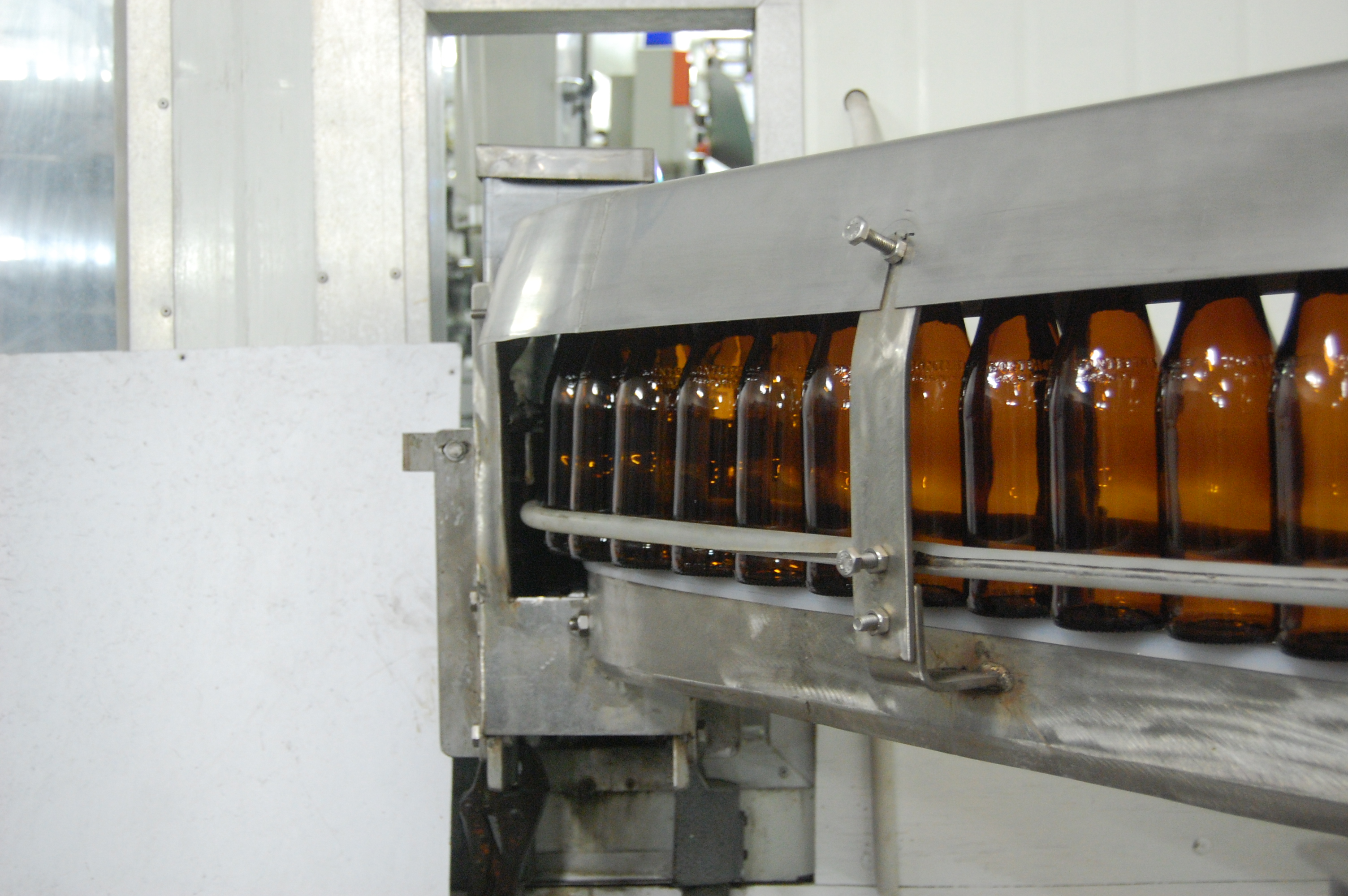 Monteith's Brewery in Greymouth